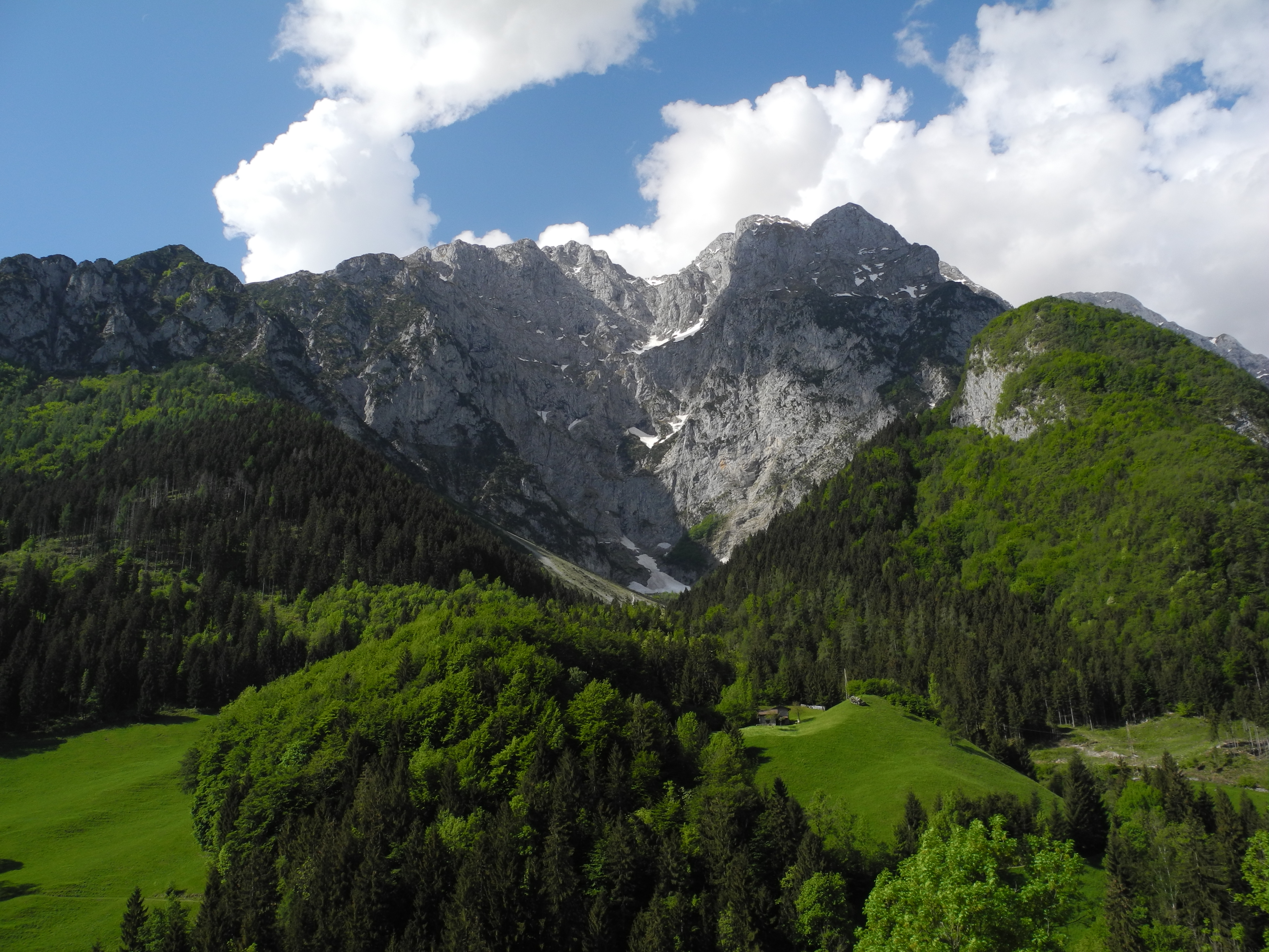 val del Las, Ardesio, Bergamo